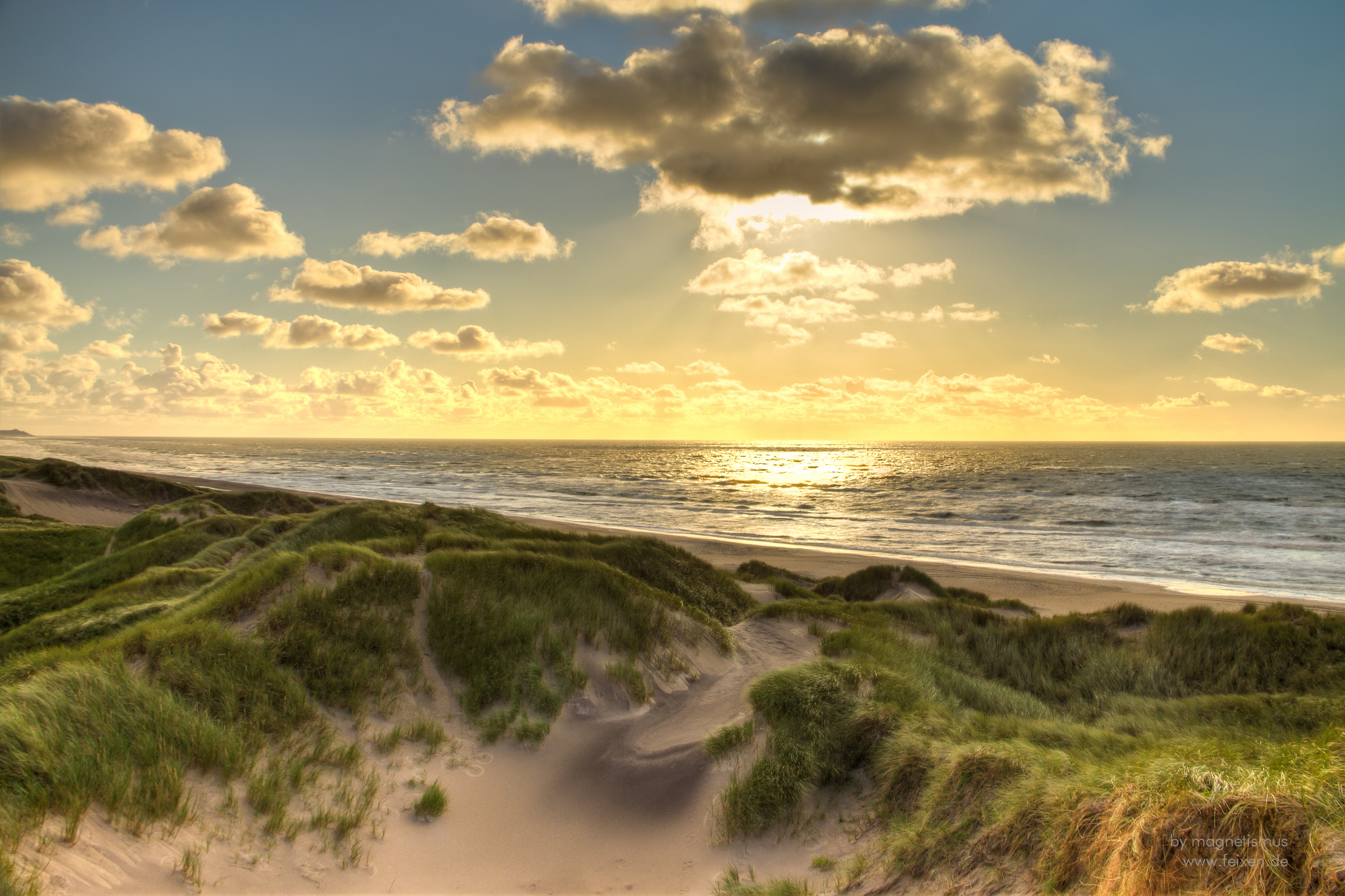 The north Sea coast of the North Jutland Island in Denmark